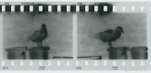 The effects of the Minolta Maxxum 4 frame counter on infrared film. I release this image file to be used under the terms of the GNU Free Documentation License. The file is a low resolution image of negatives I shot, and I retain the original negatives and their copyright, and any images directly made from the original negatives. New images based on this image file may be made, but they would also fall under the terms of the GNU Free Documentation License. -- Del_arte